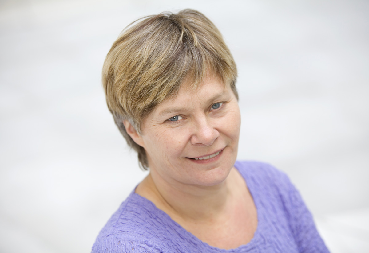 State secretary Inger Anne Ravlum, FAD, Norway